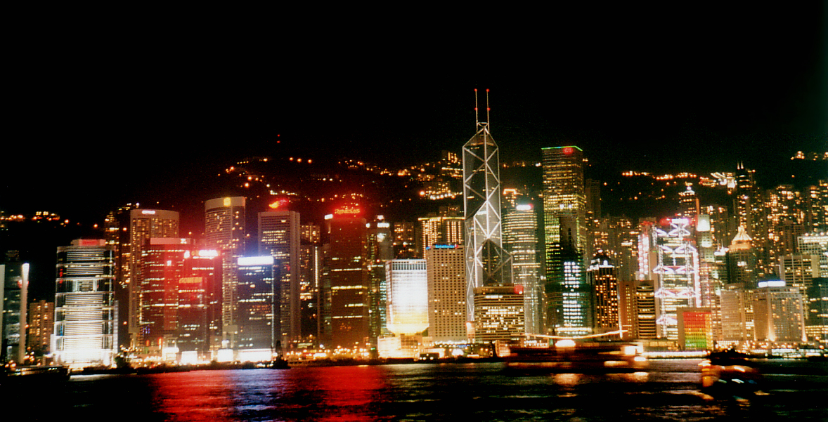 Photo by Dice (删除该图像的所有修订版本) (当前) 19:19 2006年4月10日 . . Dice (Talk) . . 1178x601 (737,486字节) (删) (复) 20:15 2005年12月15日 . . Dice (Talk) . . 1244x685 (794,659字节) (删) (复) 15:39 2005年4月17日 . . Dice (Talk) . . 603x337 (242,789字节) (Photo by Dice)